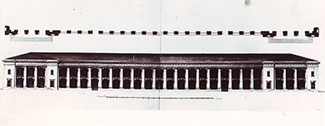 Guest House Kyiv